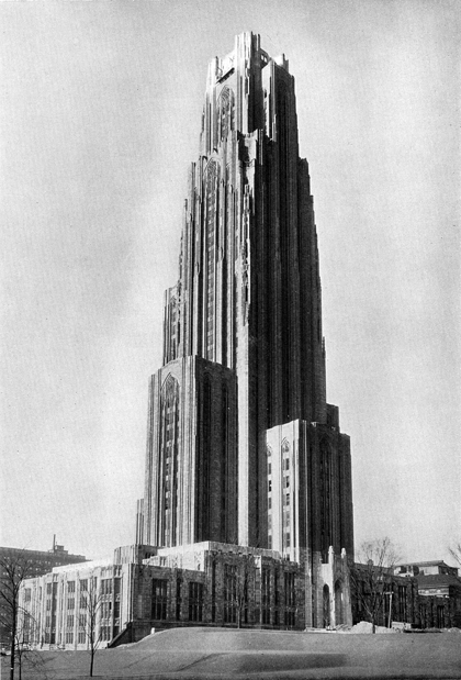 The Cathedral of Learning at the University of Pittsburgh circa 1935, following the completion of its exterior in October 1934.